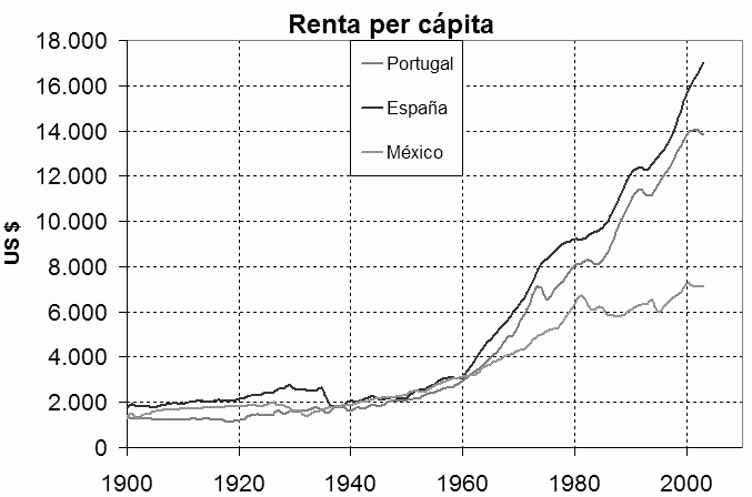 Comparative "GDP per capita" for Spain, Portugal and Mexico, base on World Population, GDP and Per Capita GDP, 1-2003 AD